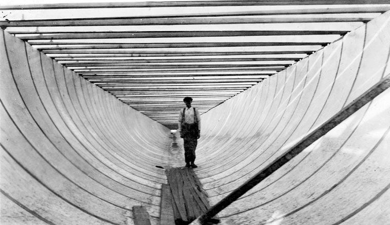 1922 -1940 Copy 1 14.1 cm x 8.5 cm Copy 2 17.9 cm x 12.5 cm 2 Black and white photographs View of construction of the Lethbridge Northern Irrigation District flume across the Oldman River. Concrete pillars, steel supports and a galvanized steel channel held rigid by struts across the top. The photograph is from the donor's own album. Three generations of the Lloyd Family have worked for the St. Mary's River Irrigation District: Maurice Frank Ronald Lloyd (donor's father) Maurice J. Lloyd (donor) To obtain high quality and larger reproductions of this image please visit the Galt Museum & Archives website: and include thIs number in your request: P19881050021